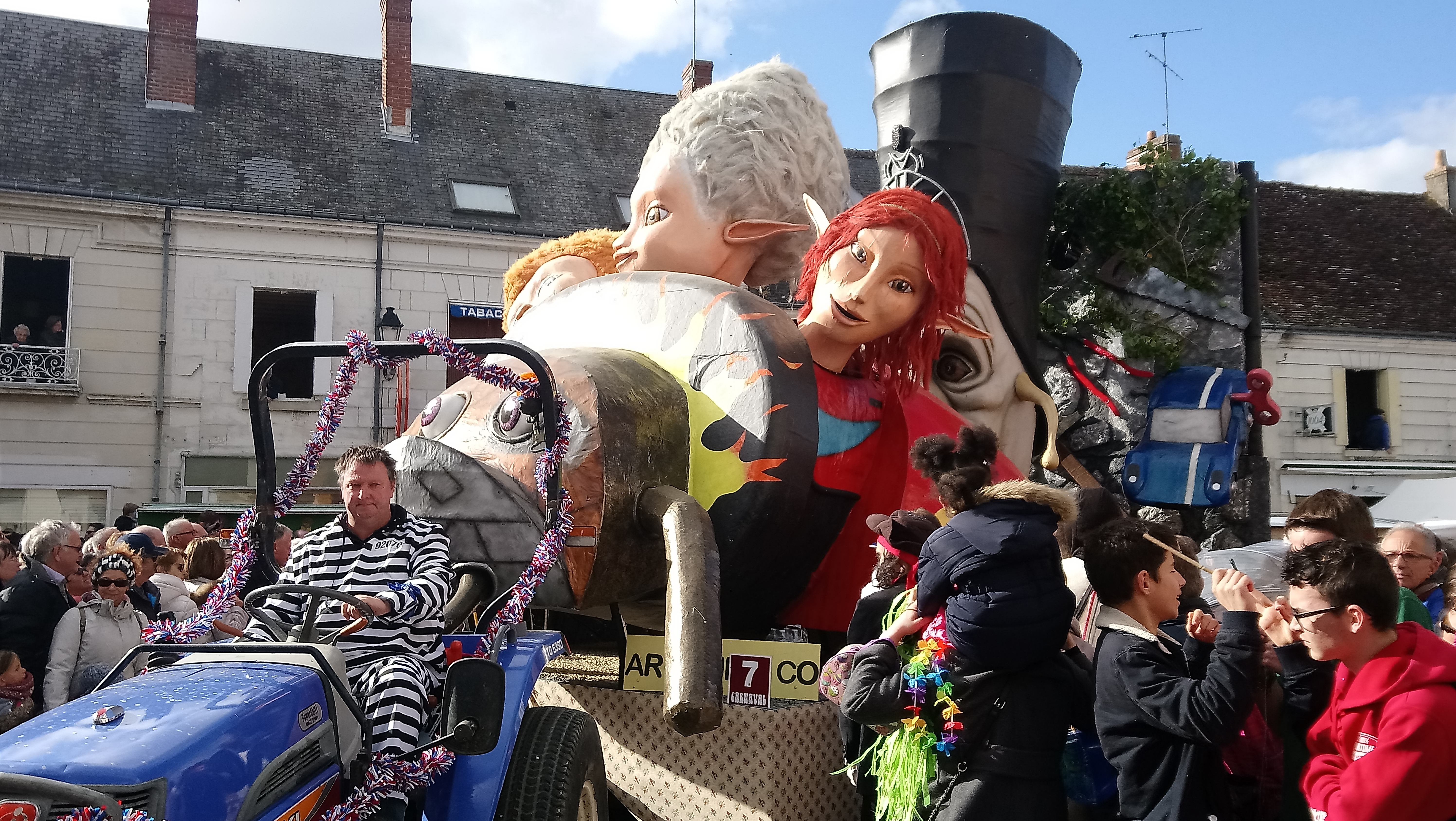 Carnaval de Manthelan (37)